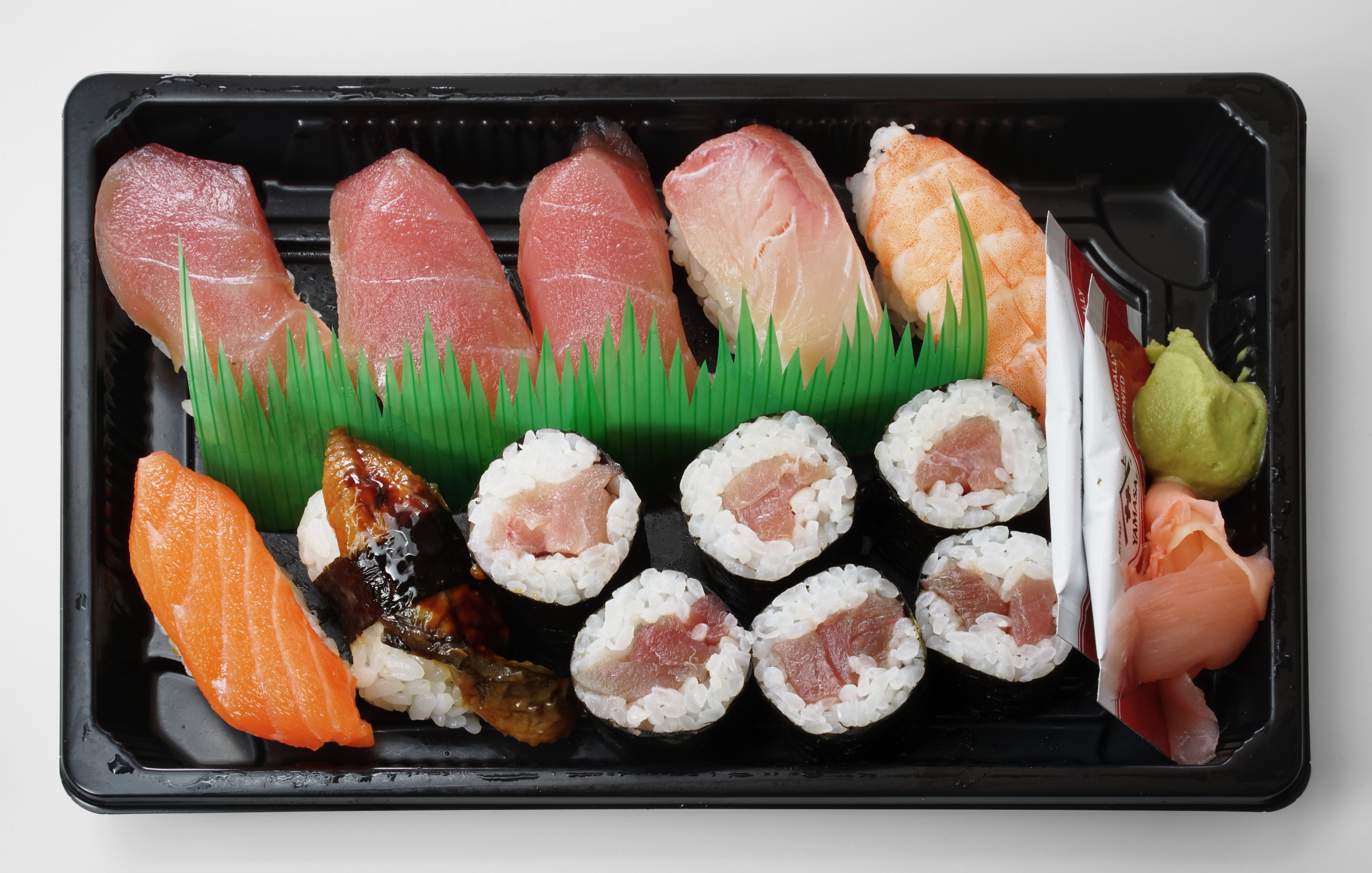 Typical box of sushi sold in grocery stores. This particular example was from Tokyo Japanese Store in Pittsburgh, PA.